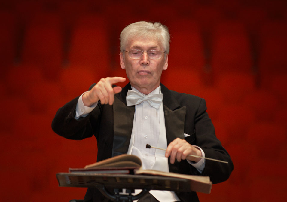 Edward Serov.